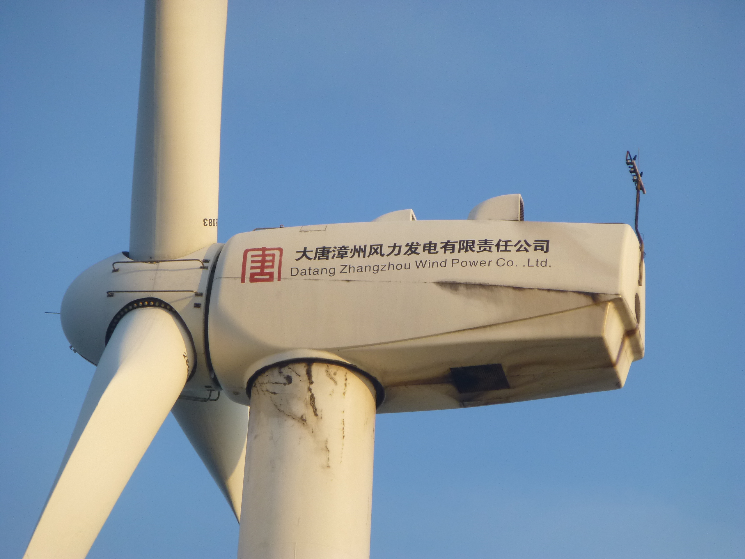 A wind power turbine in Liu'ao